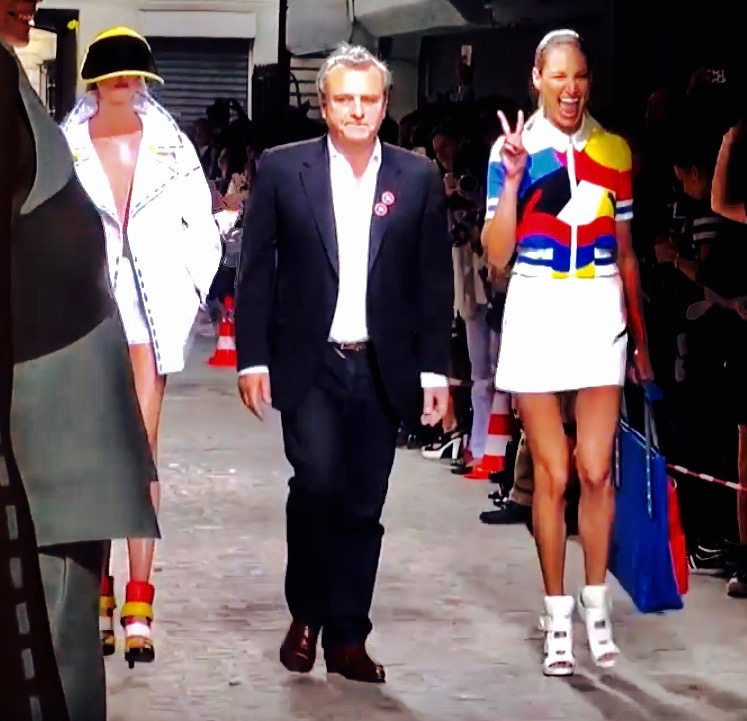 French stylist Jean-Charles de Castelbajac in 2014 during the "Womenswear Fashion Show - Spring-Summer 2015"